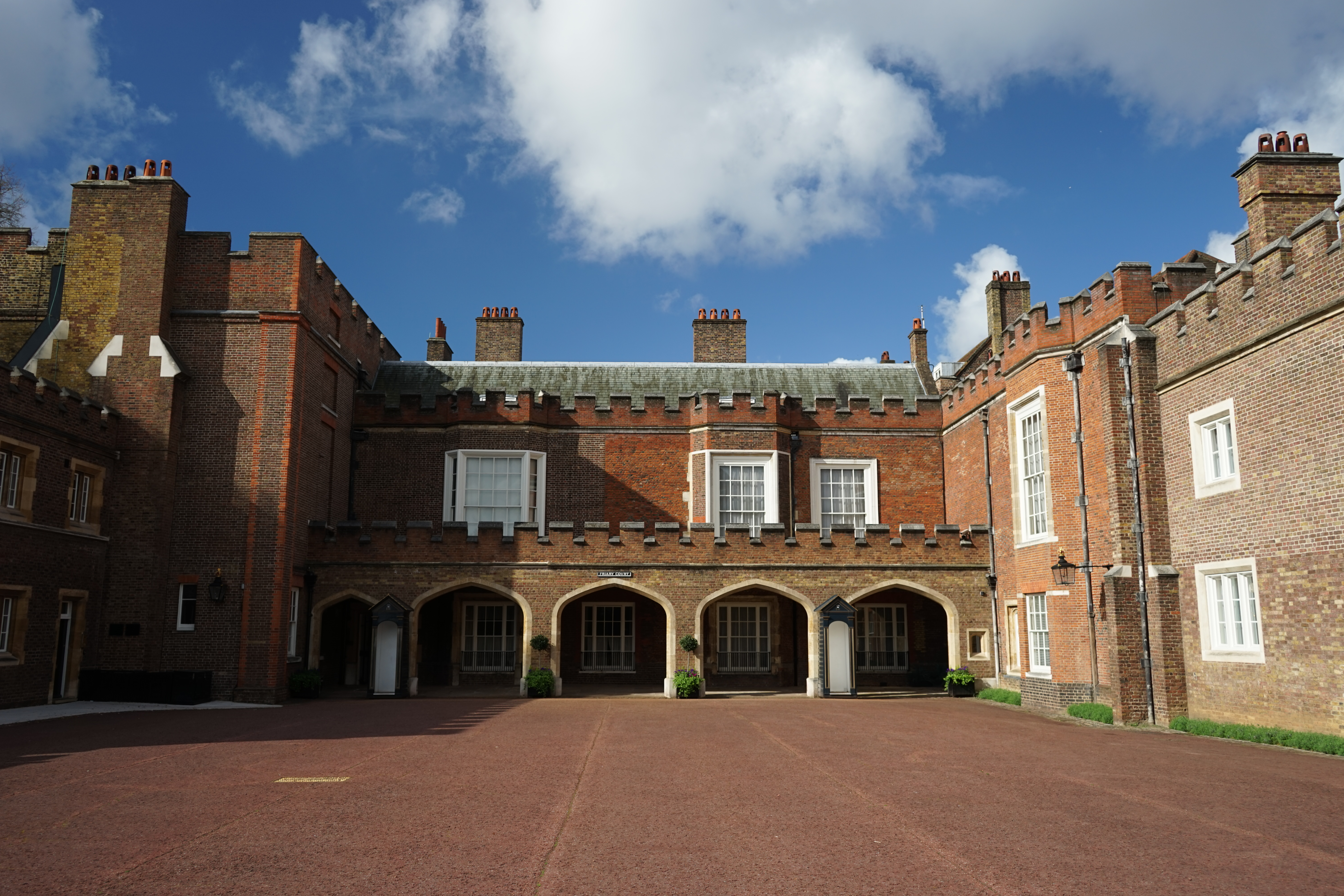 Its east side from Marlborough road